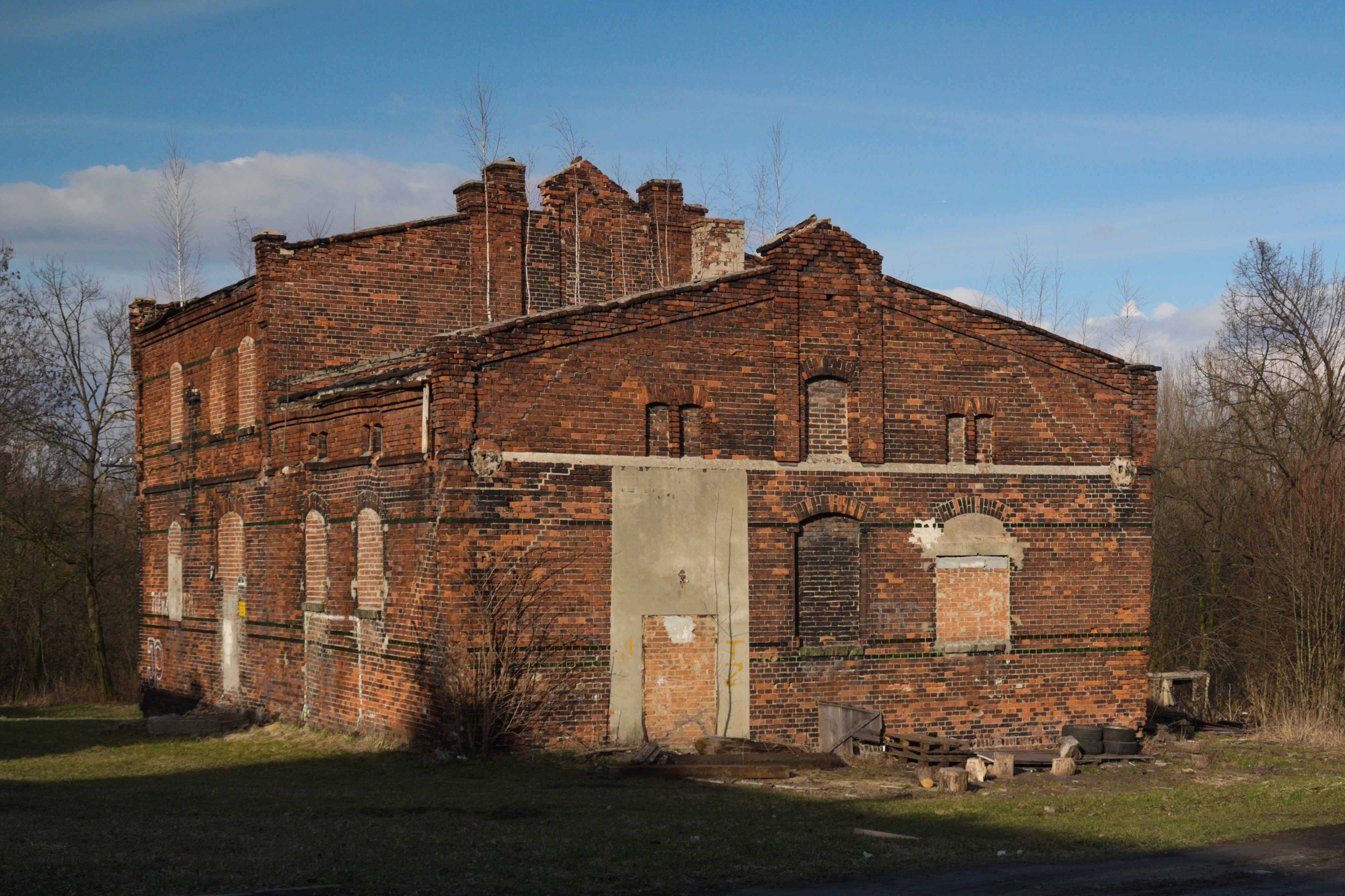 laundry and bakery building, Bytom, Kolonia Zgorzelec 31 Street, Poland